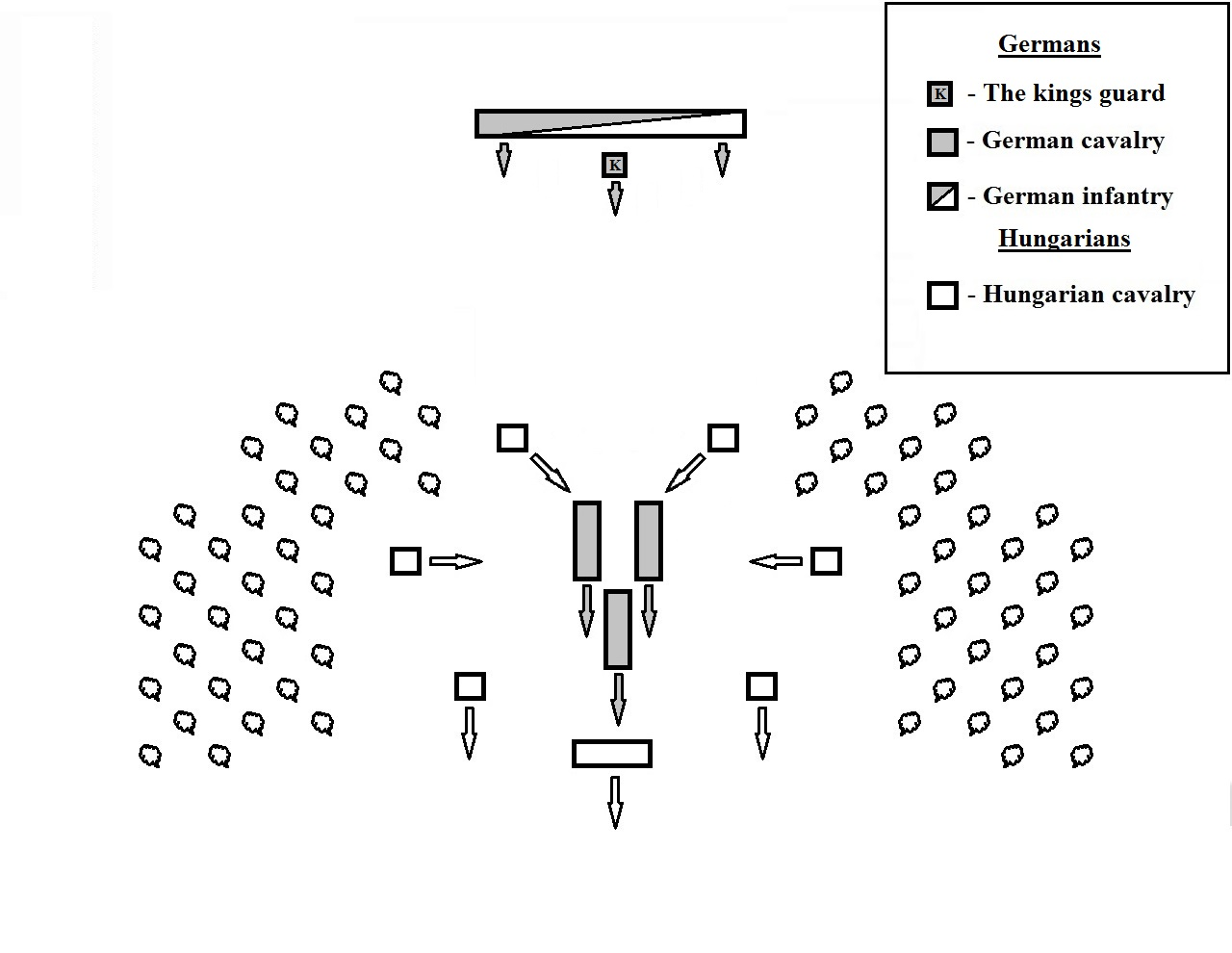 The Hungarian horse archers manage to lure the German cavalry in the trap, which is attacked from flanks by the hidden troops.